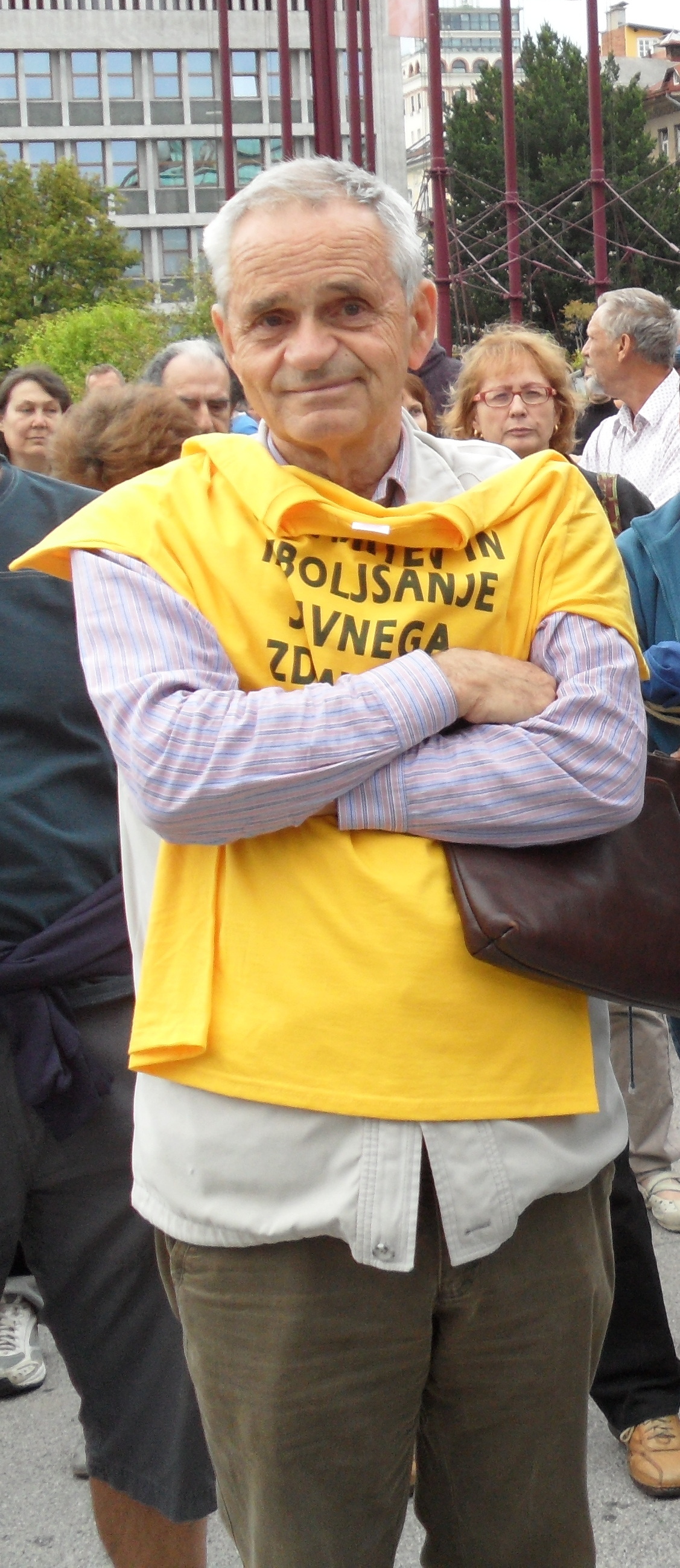 Rally in support of public health care in Ljubljana, Slovenia: On June 25, 2013, the National Day in Slovenia, cca. 5000 protestors gathered in Ljubljana in support of public health care.